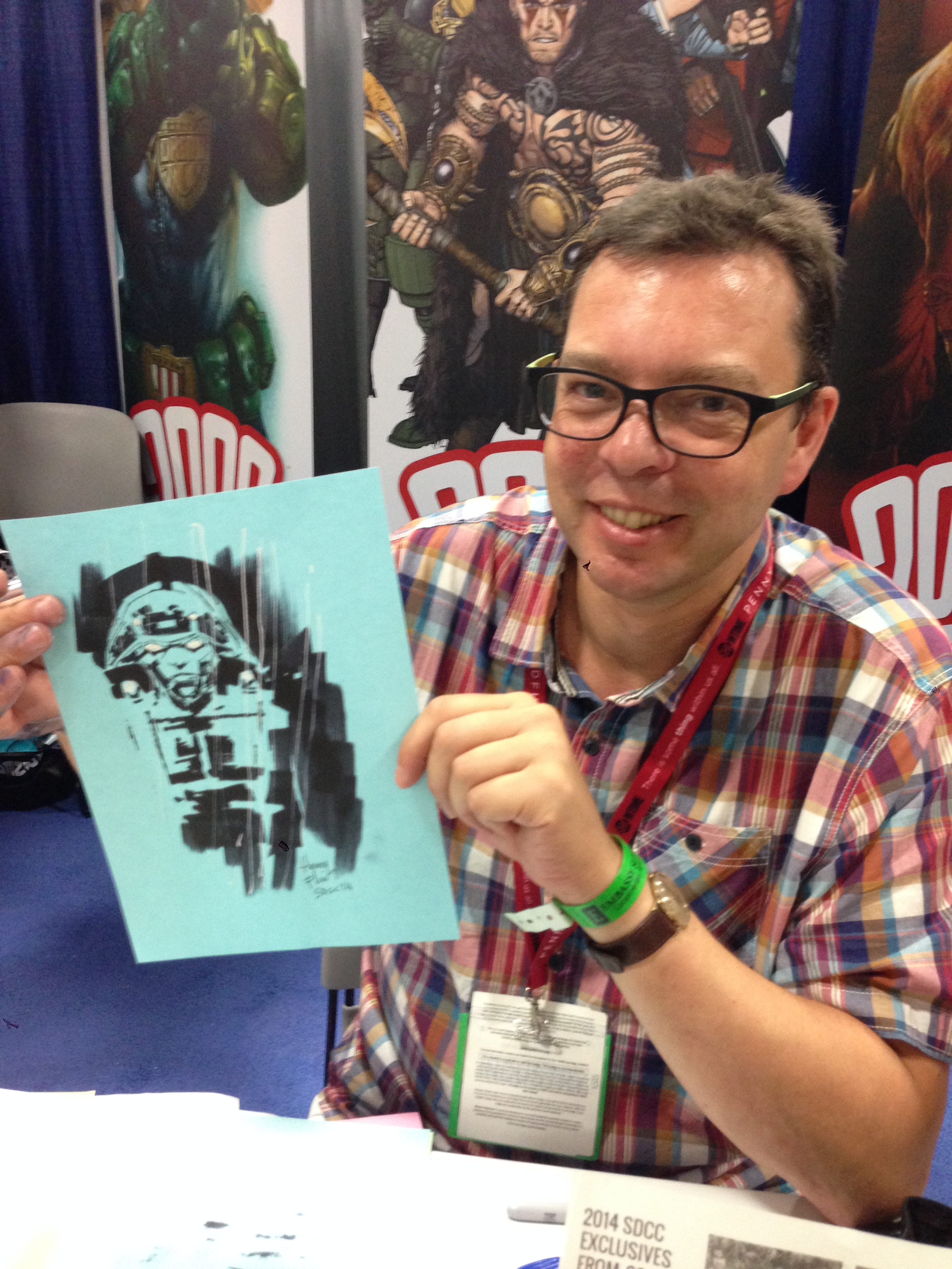 British comic book artist Henry Flint at the 2014 San Diego Comic-Con International